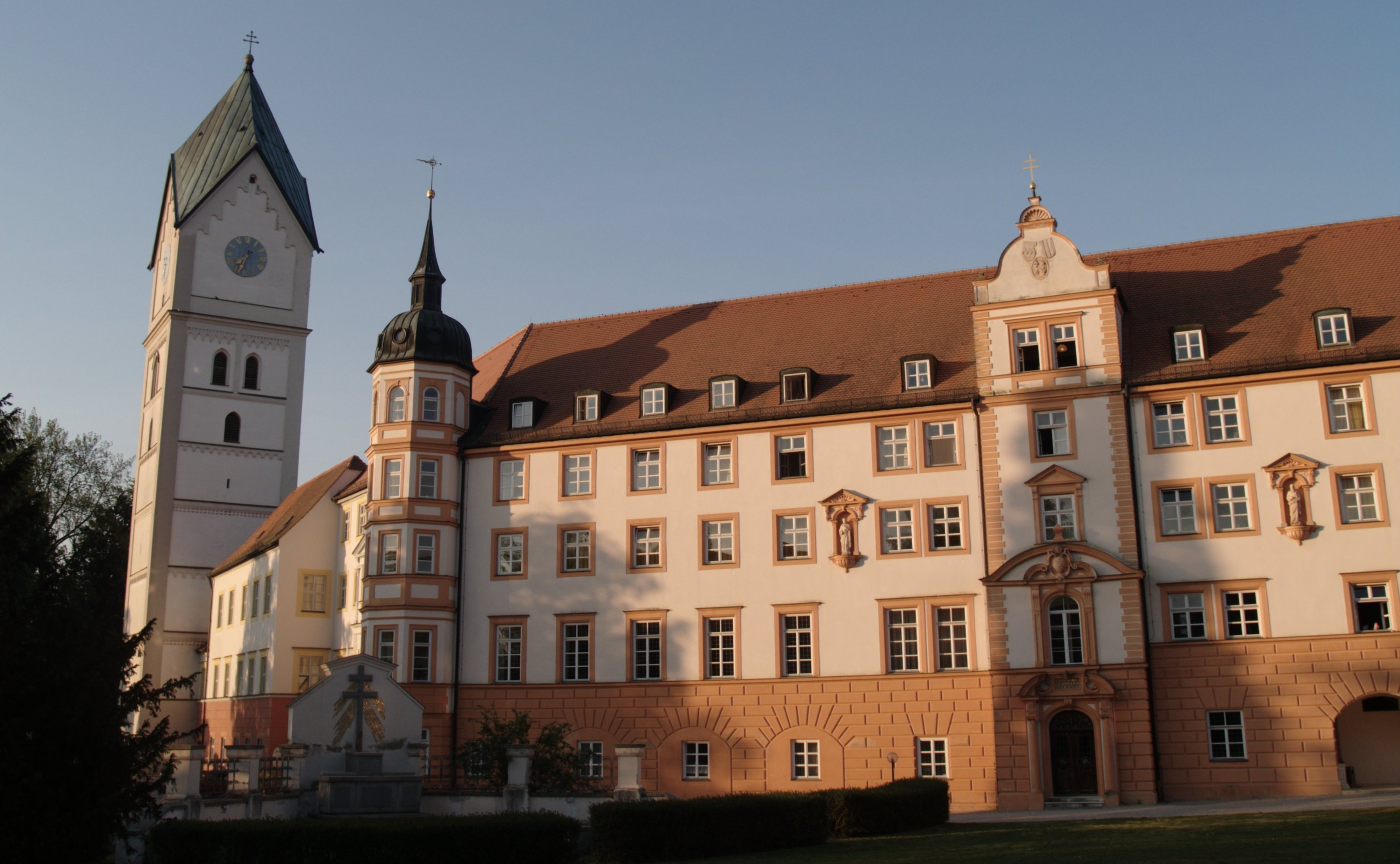 Monastery Scheyern, Order of Sanct Benedict